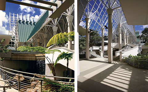 Image by Max Toro Mattei, 2018. View of the exhibition and information center located in the El Yunque tropical rainforest reserve. Designed by Segundo Cardona FAIA of SCF Architects.